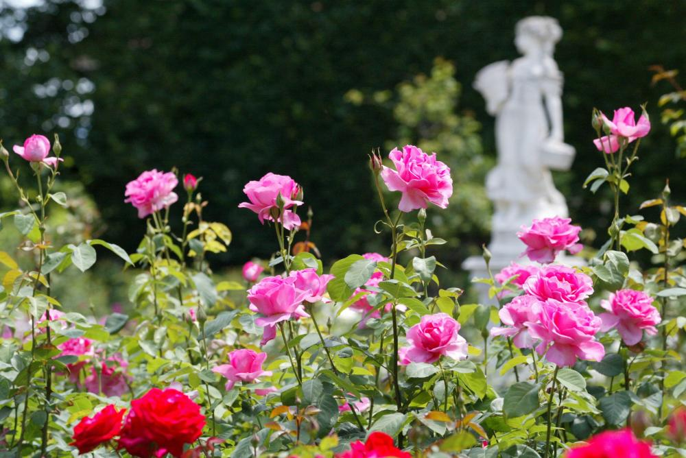 Parc Wallach Libre de Droit - Mairie Mulhouse